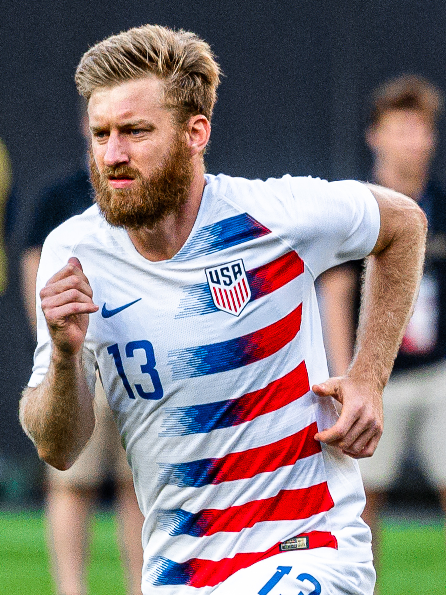 USMNT vs. Trinidad and Tobago